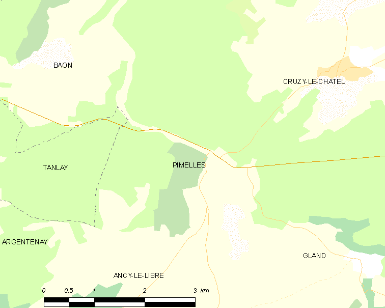 Map of French municipality Pimelles